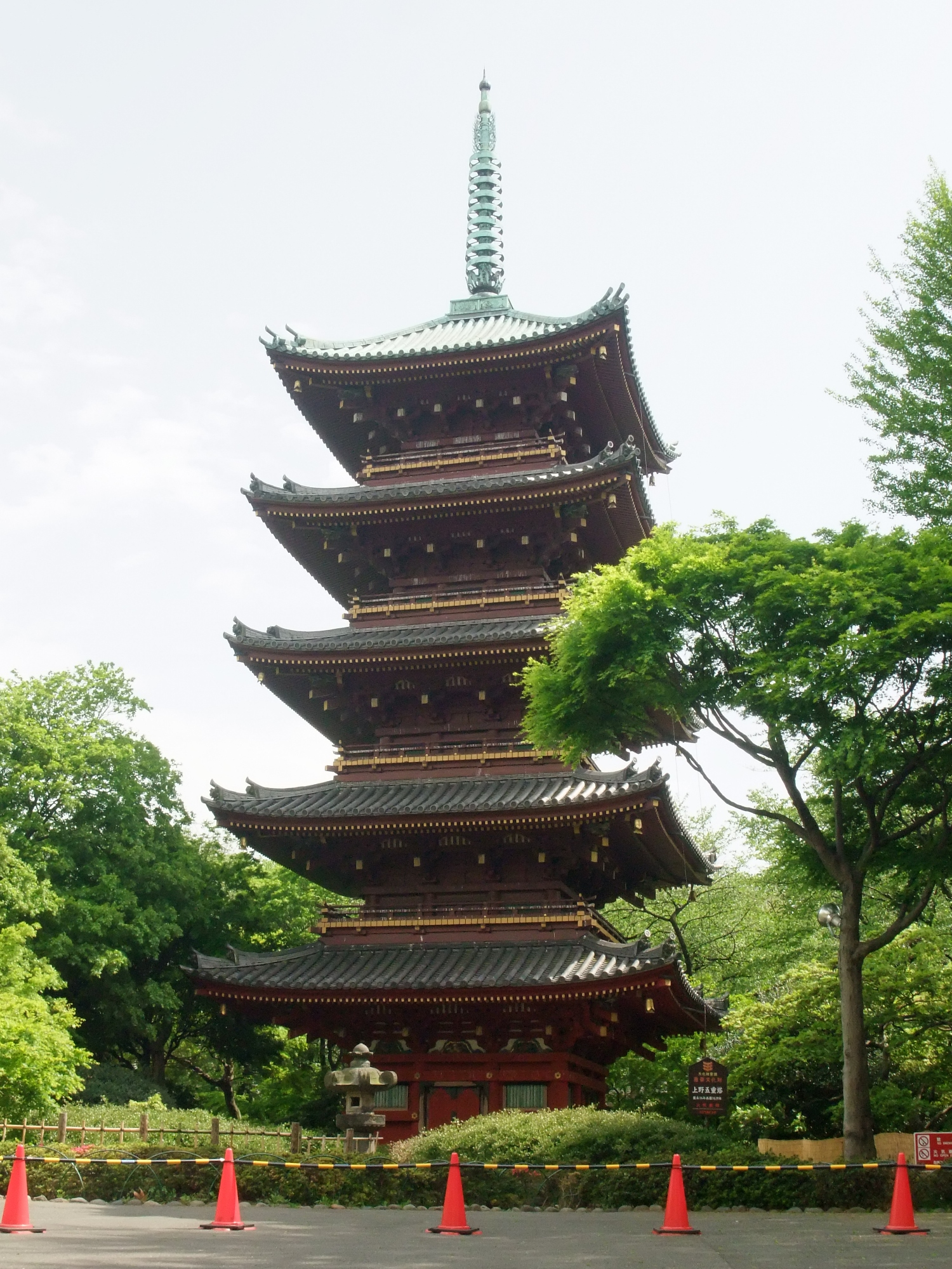 Five-storied Pagoda of Kan'ei-ji temple in Ueno, Tokyo